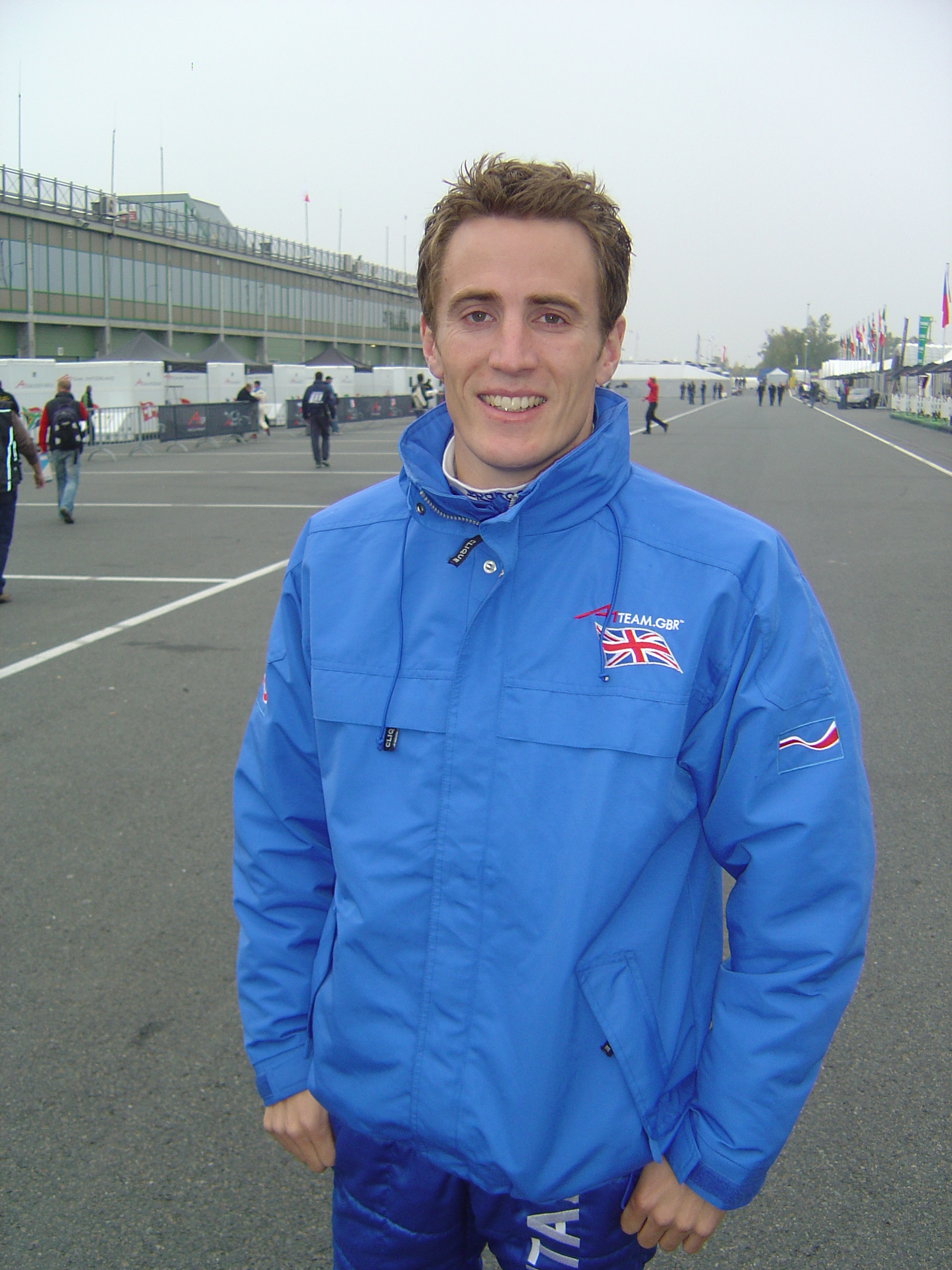 Robbie Kerr: the photo was taken during 2007's A1GP race weekend at Brno